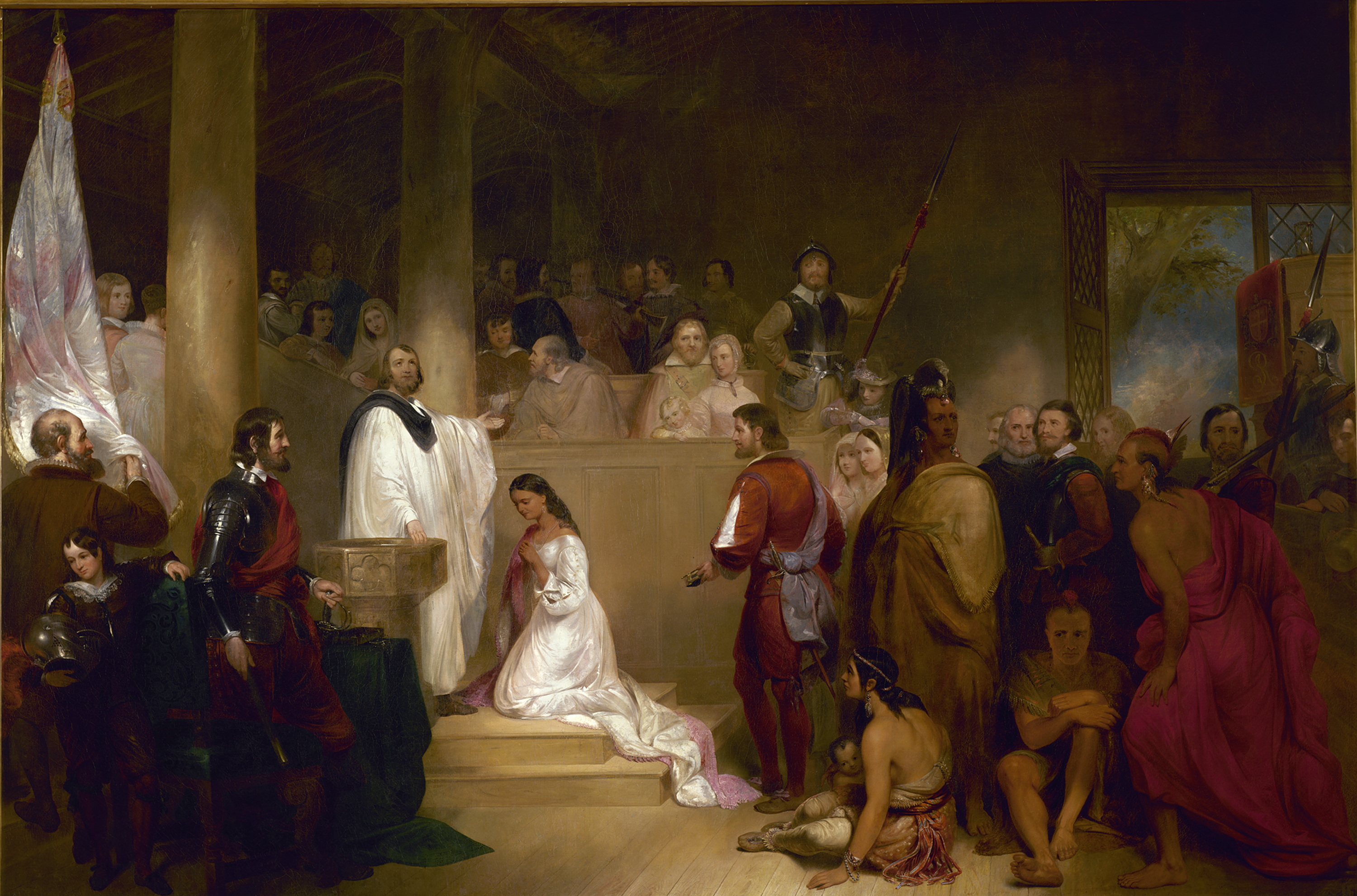 John Gadsby Chapman depicts Pocahontas, wearing white, being baptized Rebecca by Anglican minister Alexander Whiteaker in Jamestown, Virginia; this event is believed to have taken place in 1613 or 1614. She kneels, surrounded by family members and colonists. Her brother Nantequaus turns away from the ceremony. The baptism took place before her marriage to Englishman John Rolfe, who stands behind her. Their union is said to be the first recorded marriage between a European and a Native American. The scene symbolizes the belief of Americans at the time that Native Americans should accept Christianity and other European ways. Chapman (1808-1889), born in Alexandria, Virginia, studied art in Italy and became known for his portrait and historical paintings and his rich use of color. The dimensions of this oil painting on canvas are 365.76 cm by 548.64 cm (144.00 in by 216.00 in).